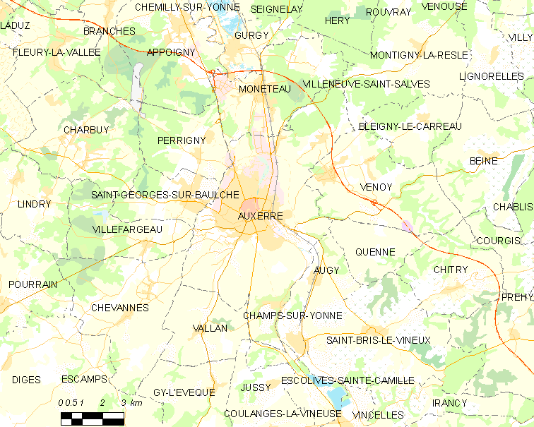 Map of French municipality Auxerre